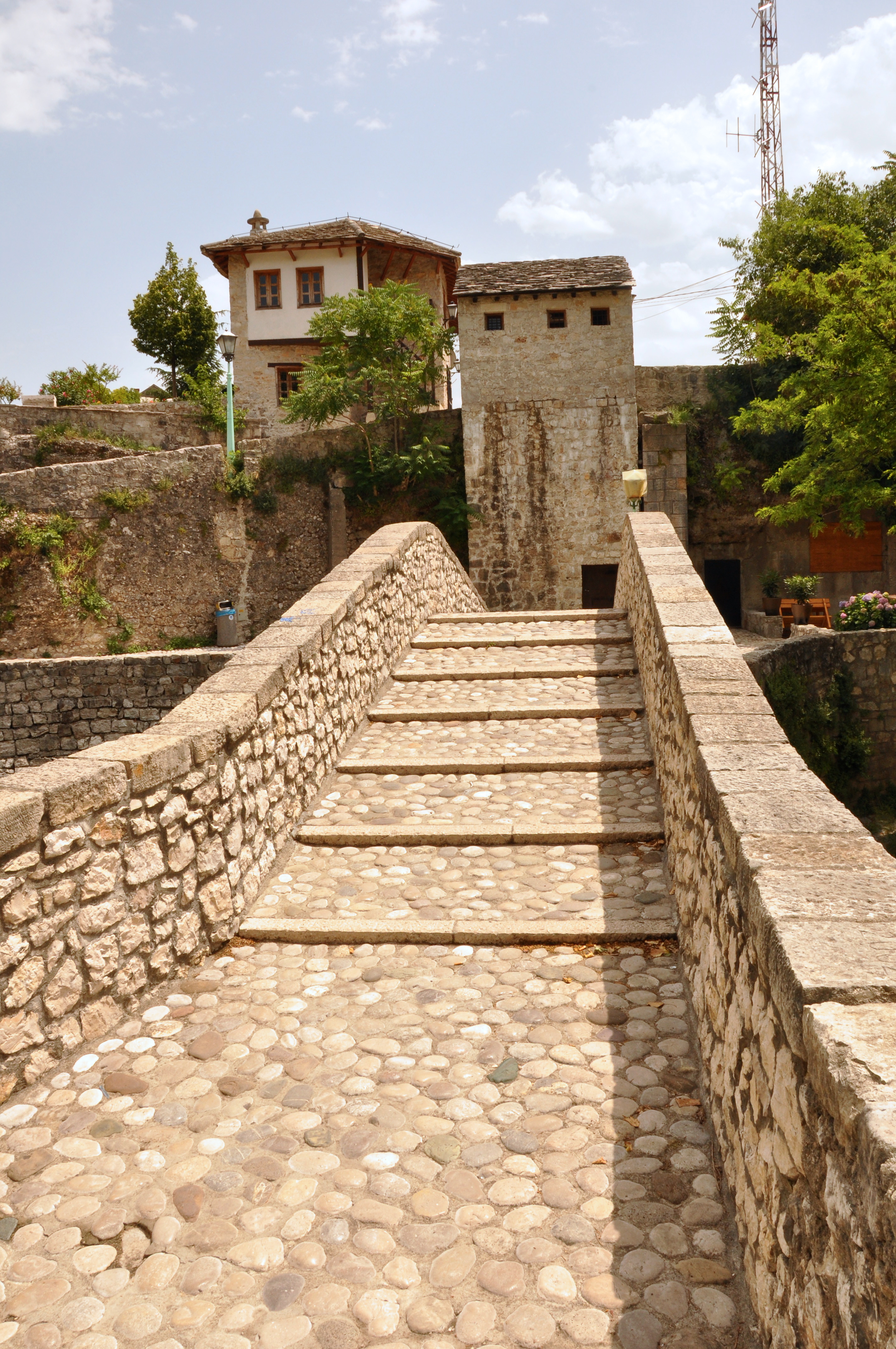 The oldest single arch stone bridge in Mostar, the Kriva Cuprija, is believed to have been built in 1558. It is said that this was to be a test before the major construction of the Stari Most began.